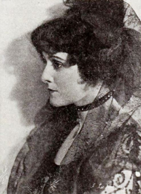 Actress Fontaine La Rue, on page 75 of the June 19, 1920 Exhibitors Herald.